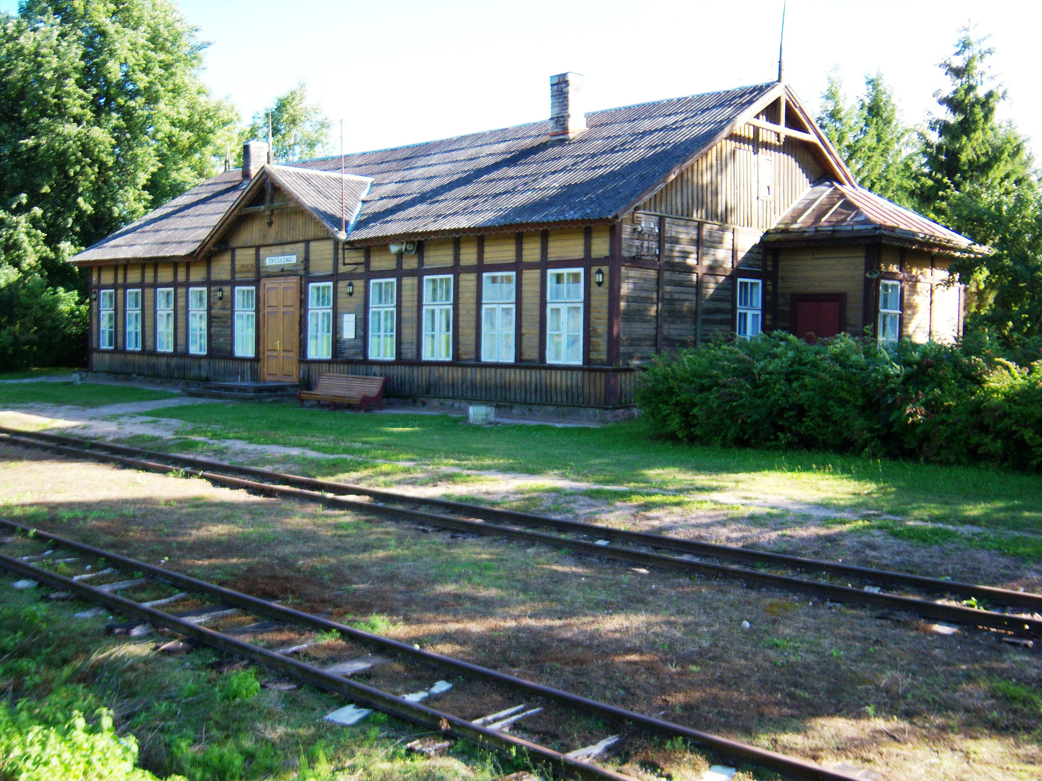 Troškūnai narrow gauge railway station, Anykščiai District, Lithuania